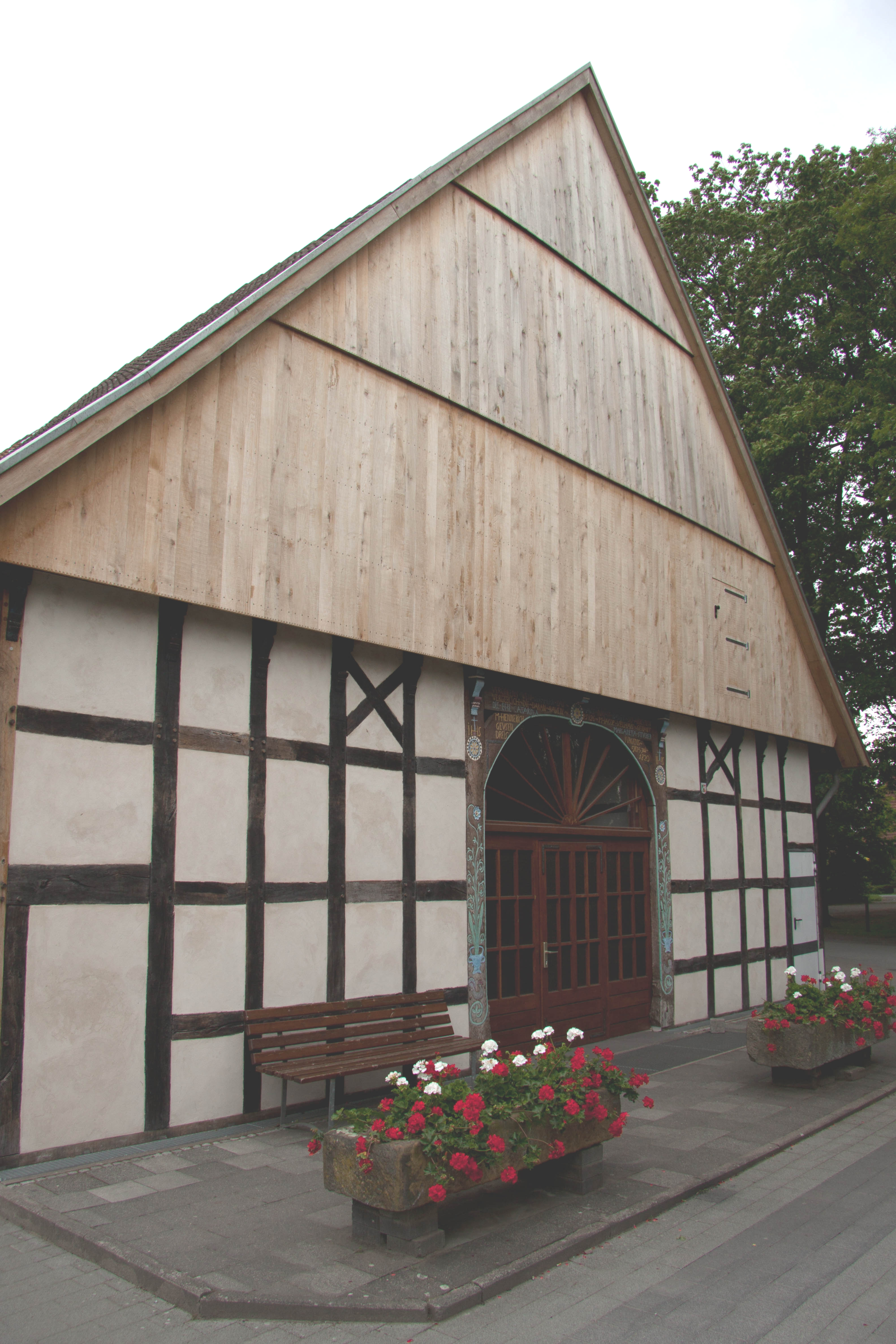 Musikzentrum Stiftung Altewischer, Alte Spexarder Str. 4-4a, 33335 Gütersloh, Germany